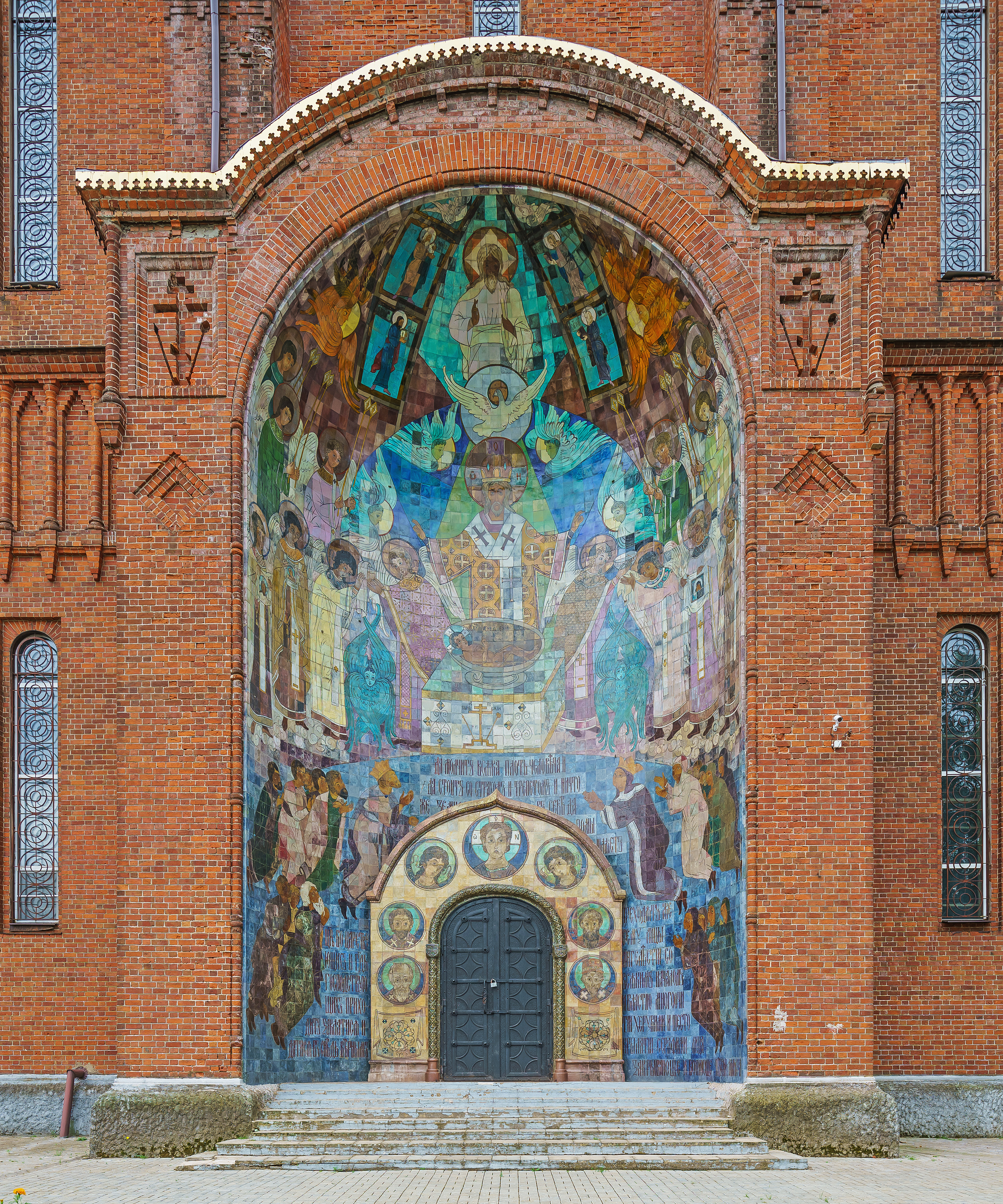 Maiolica at the Resurrection Church in Vichuga, Ivanovo Oblast, Russia.